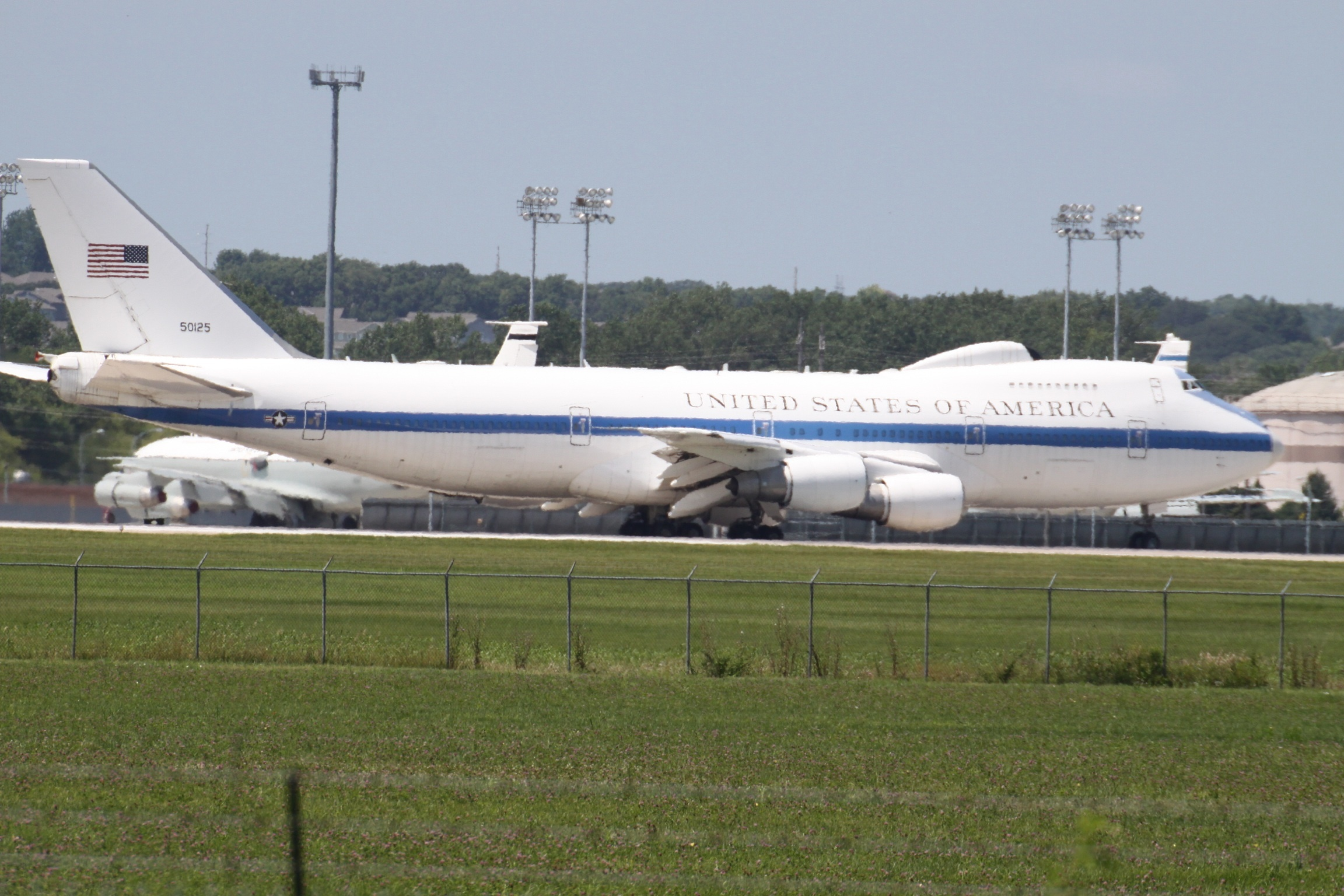 At Offutt Airforce Base